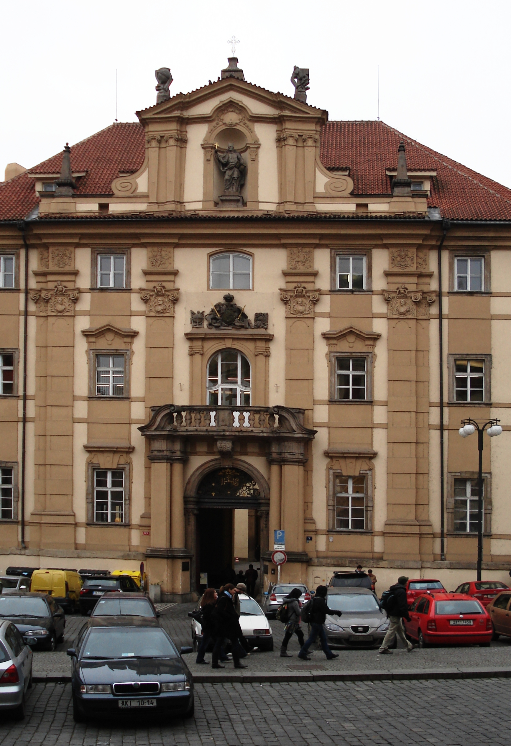 East entrance to the Clementinum, Prague.